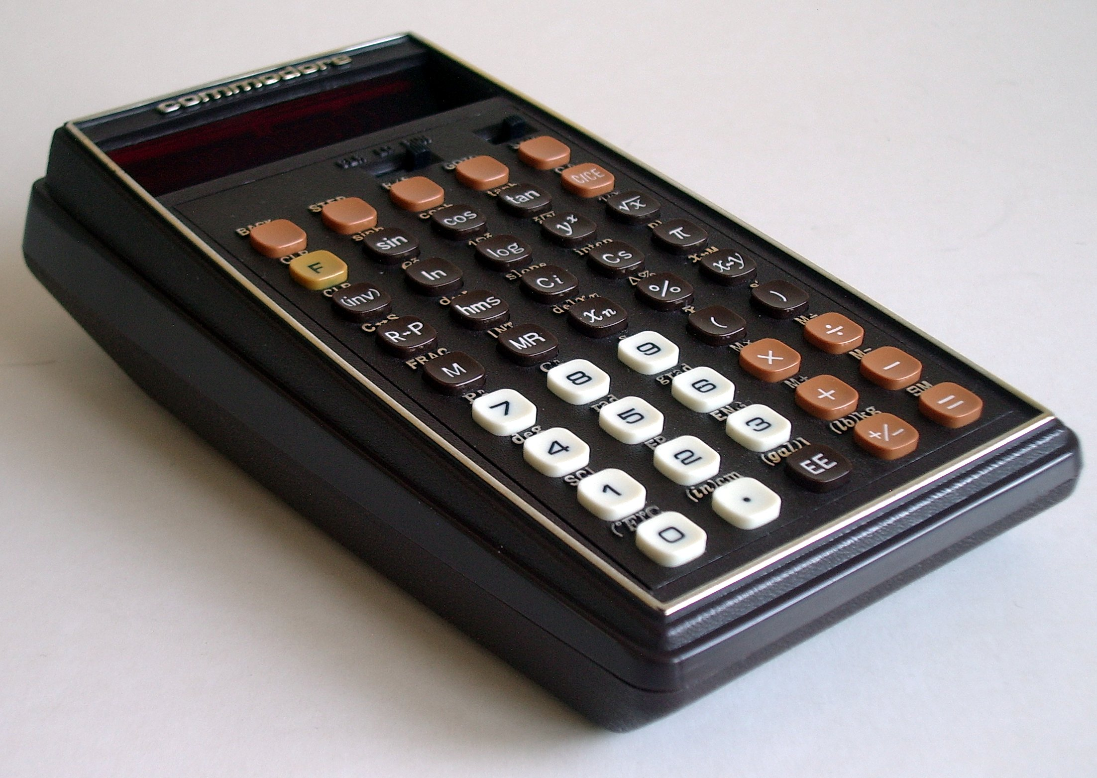 Commodore PR-100 - Programmable electronic calculator. Red LED 7-segment display. Rechargable NiCd battery. Made in Hongkong ca. 1978 (Date of german manual: April 1978). Serial No. (on back plate) 201392-04